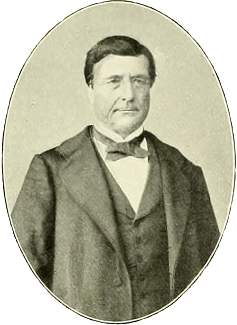 Portrait of the botanist J. B. M. J. Eugène Ripart